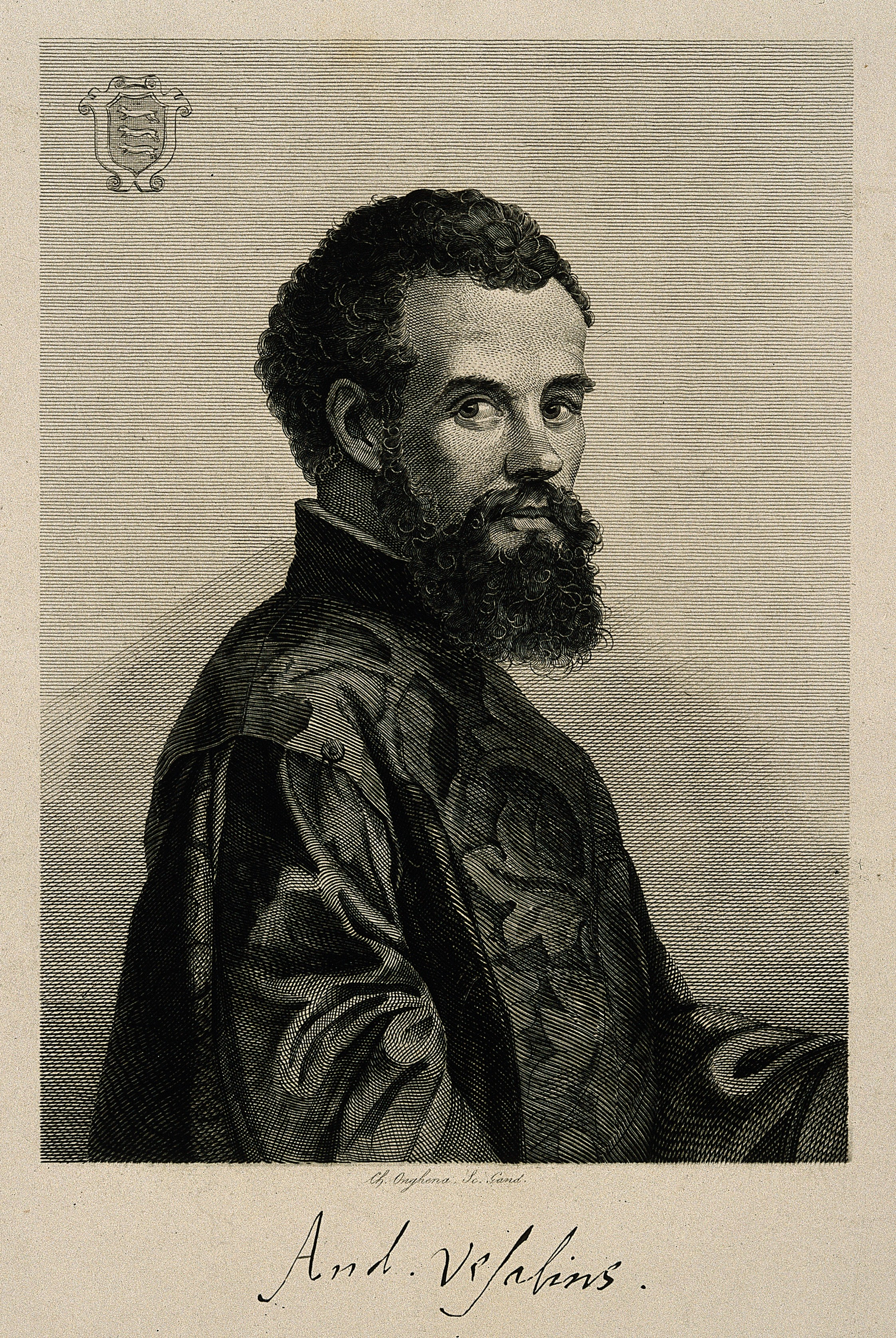 Portrait of Andreas Vesalius (1514 - 1564), Flemish anatomist Iconographic Collections Keywords: portrait prints; engravings; Andreas Vesalius; C Onghena